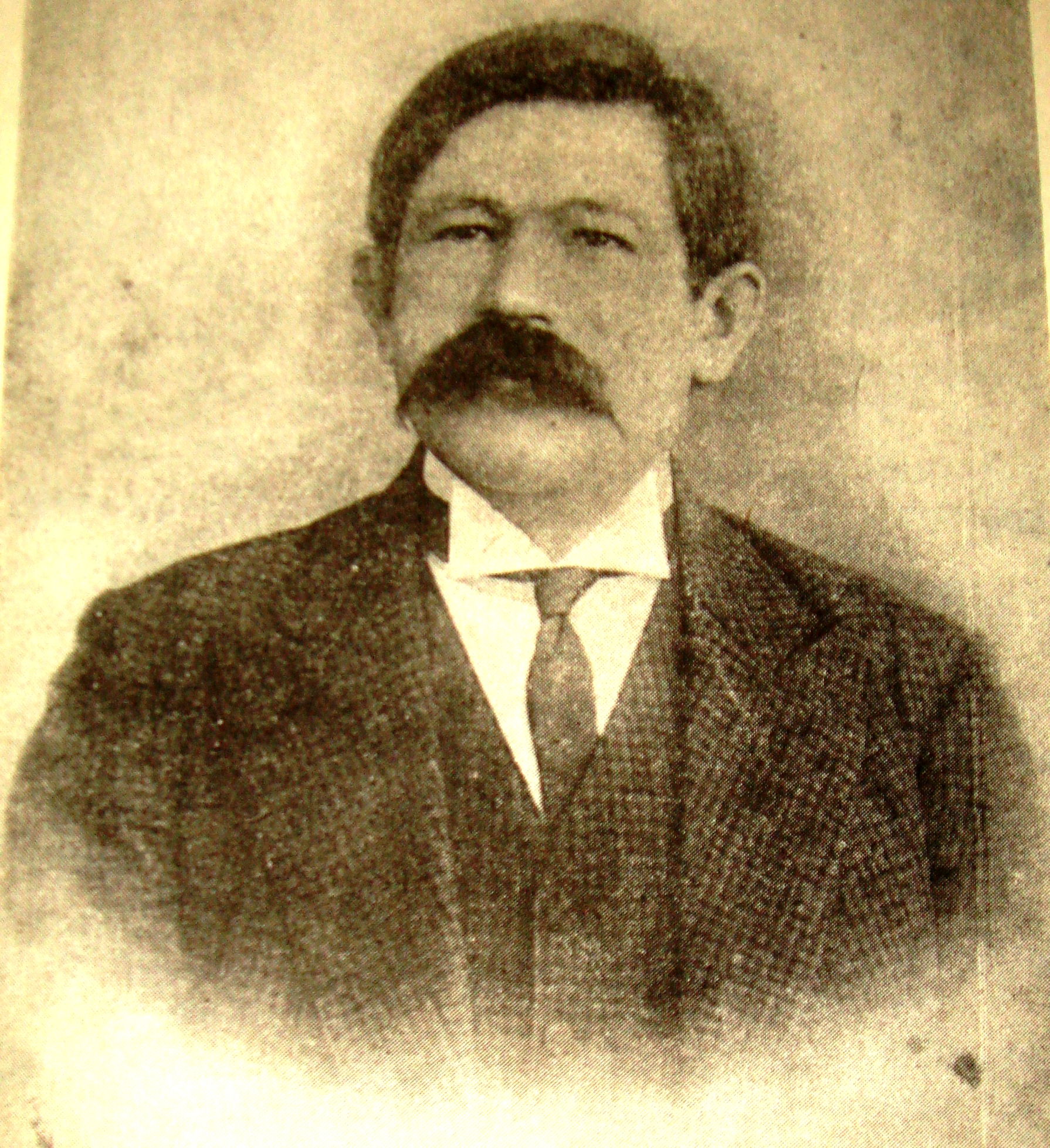 Photo of Ğayaz Ishaqi, Tatar journalist and poet of the 20th century. Photo is dated 1911 and seems to have been in his journal "Gasyr" ("The Era").